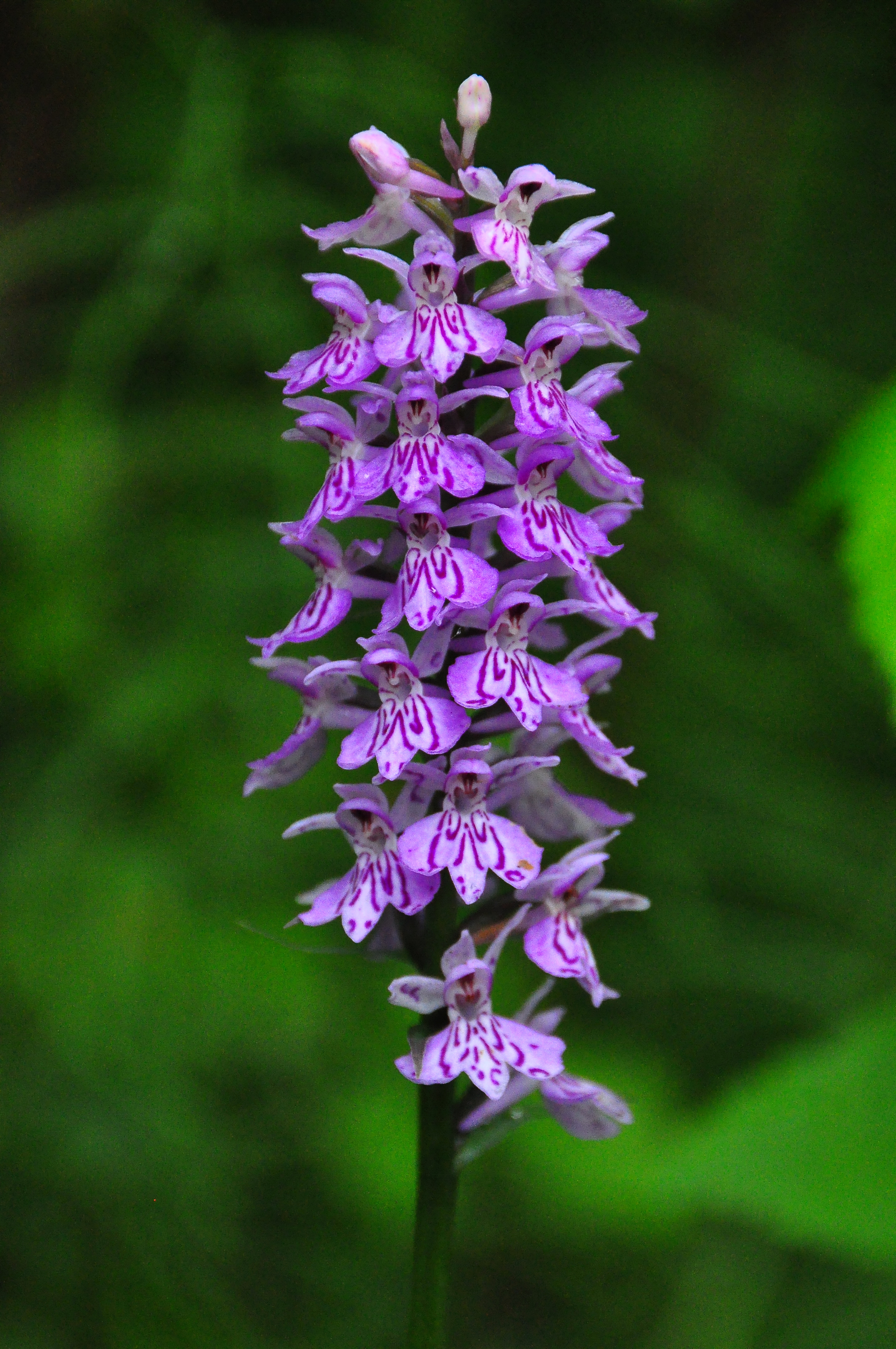 Dactylorhiza maculata at the Tiebel-wellsprings on the foot-hill of the “Praekowa-mountain” in the community Himmelberg, district Feldkirchen, Carinthia, Austria